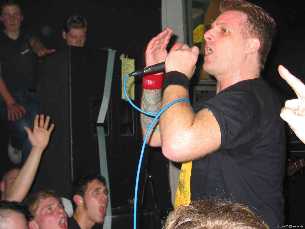 en:7seconds live 2005